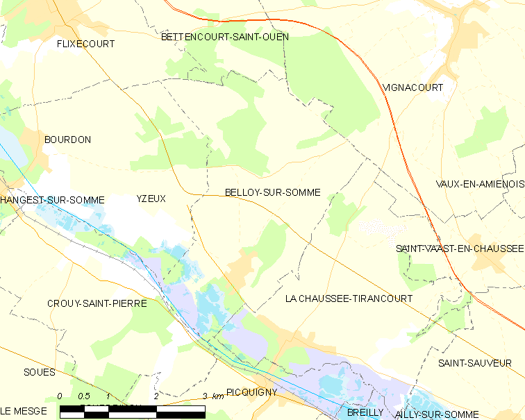 Map of French municipality Belloy-sur-Somme